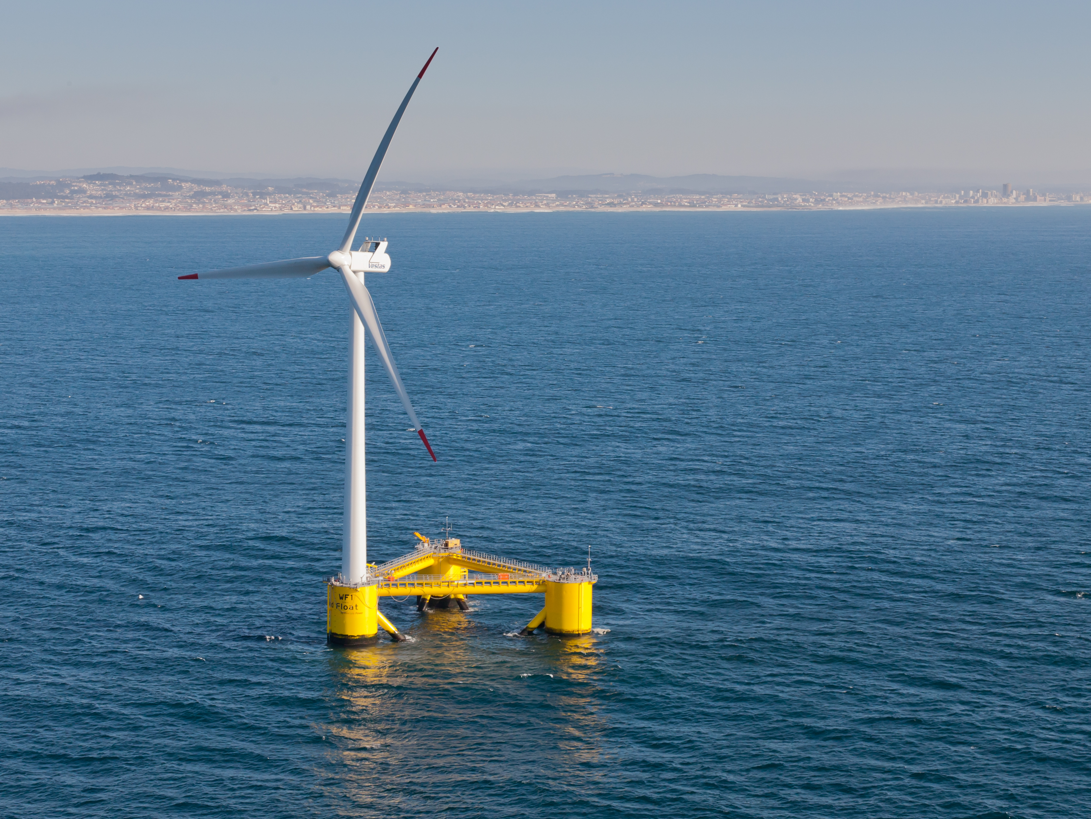 A semi-submersible type floating offshore wind turbine foundation called the WindFloat operating at rated capacity (2MW) approximately 5km offshore of Agucadoura, Portugal.